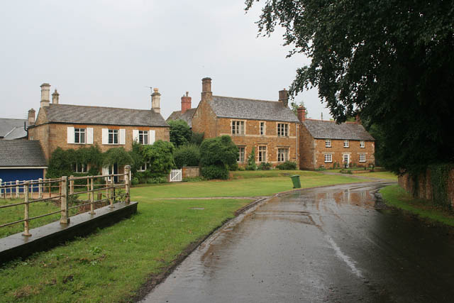 Another view of houses in Ayston. This appears to be a very popular view of the village, it also appears on the Rutnet web site!